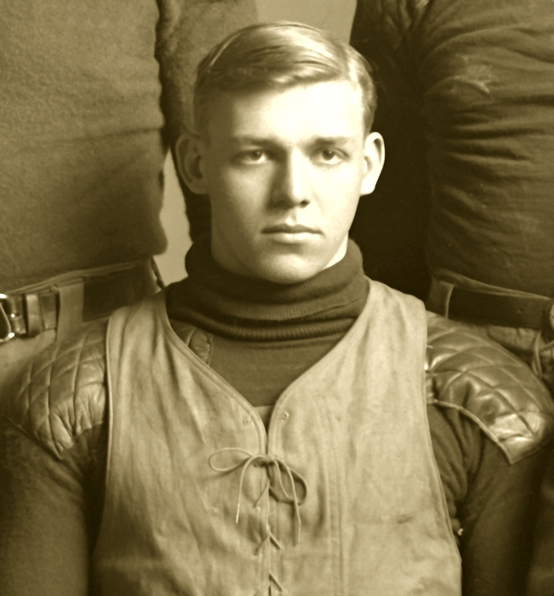 Photograph of John Garrels